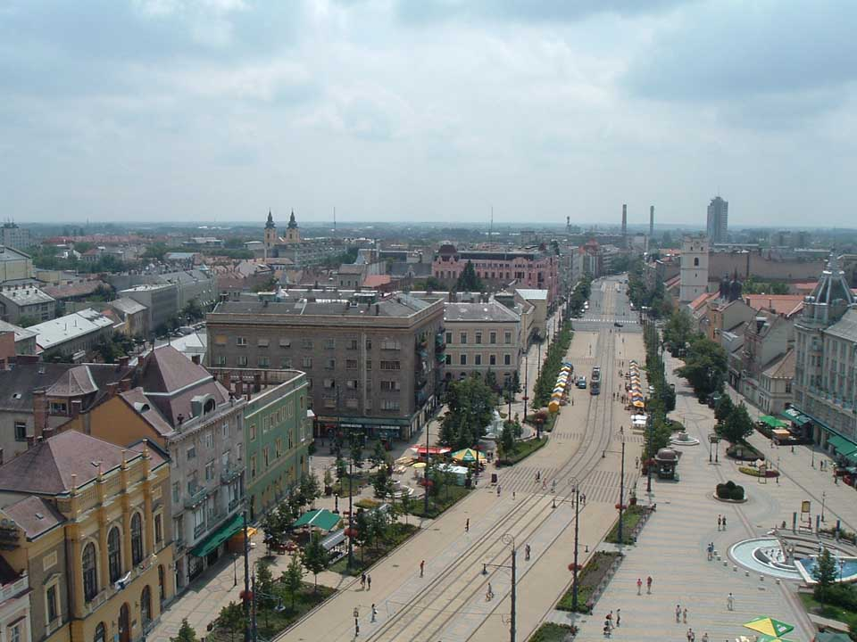 Panorama of Debrecen from the tower of the Great Church